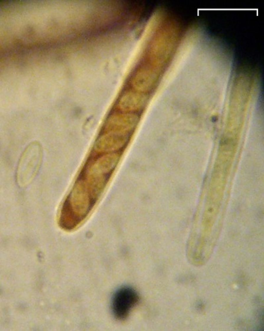 Lachnellula sp. 20090808.1 Grouse Lake, Wells Gray Park, BC This was taken from a tiny orange disk fungus growing on subalpine Engelmann spruce. It's an excellent example of an inoperculate ascus (stained in Lugol's solution). Note the conspicuously thickened lateral walls and broad pore at the tip. This feature rules out the Discomycetes such as Peziza and Sarcoscypha.